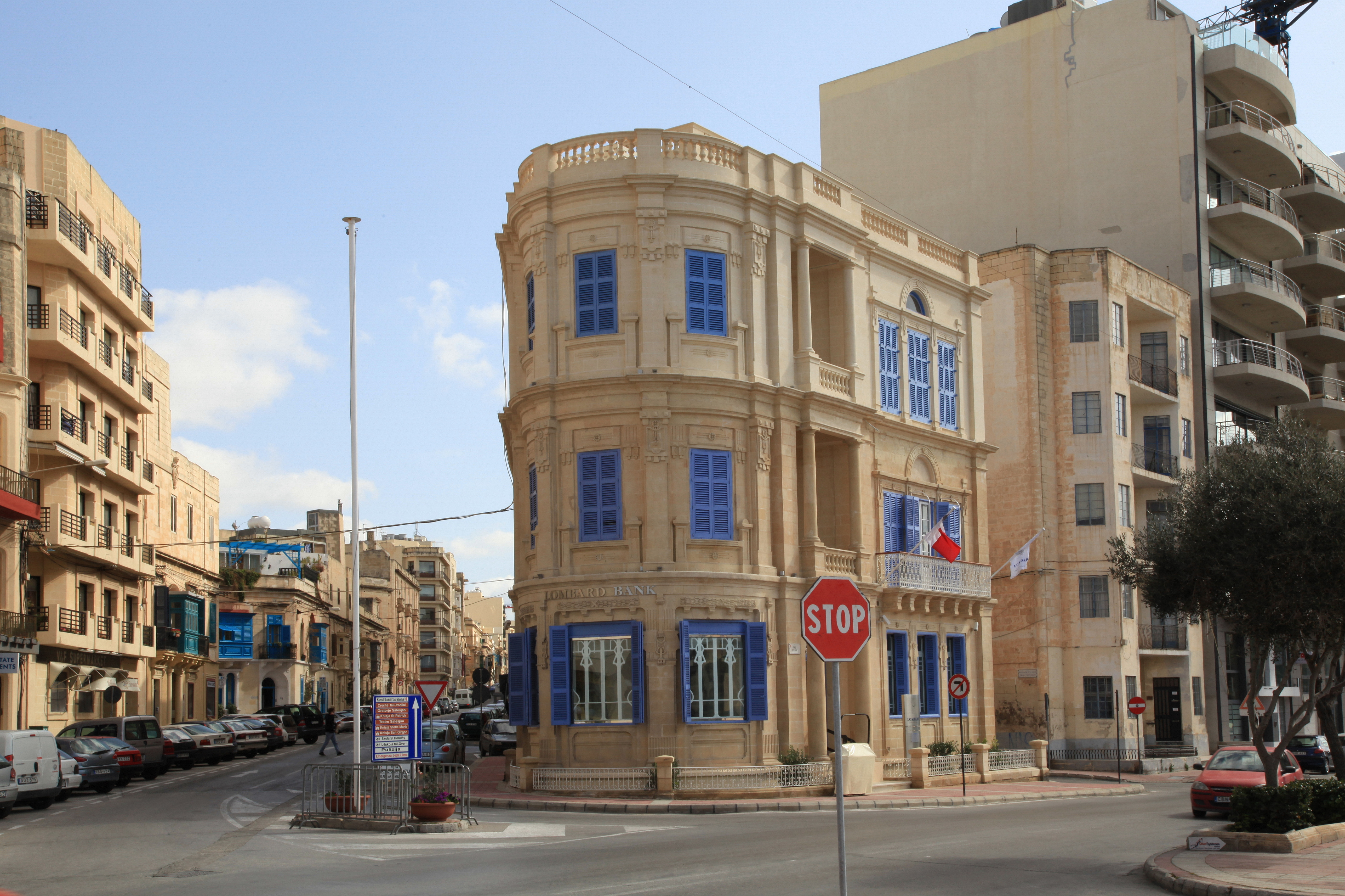 Lombard Bank, Triq it-Torri 225 in Sliema, Malta